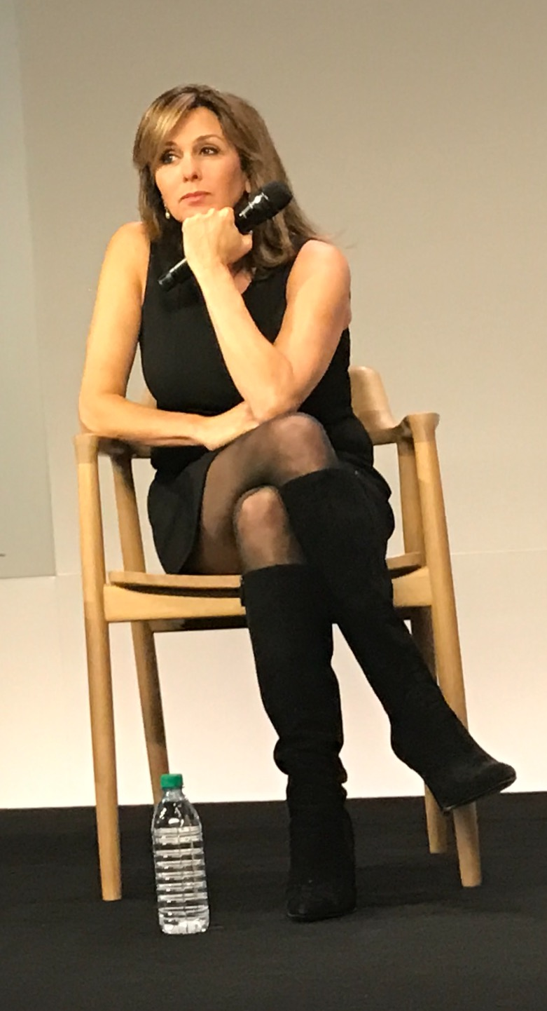 photo in new york